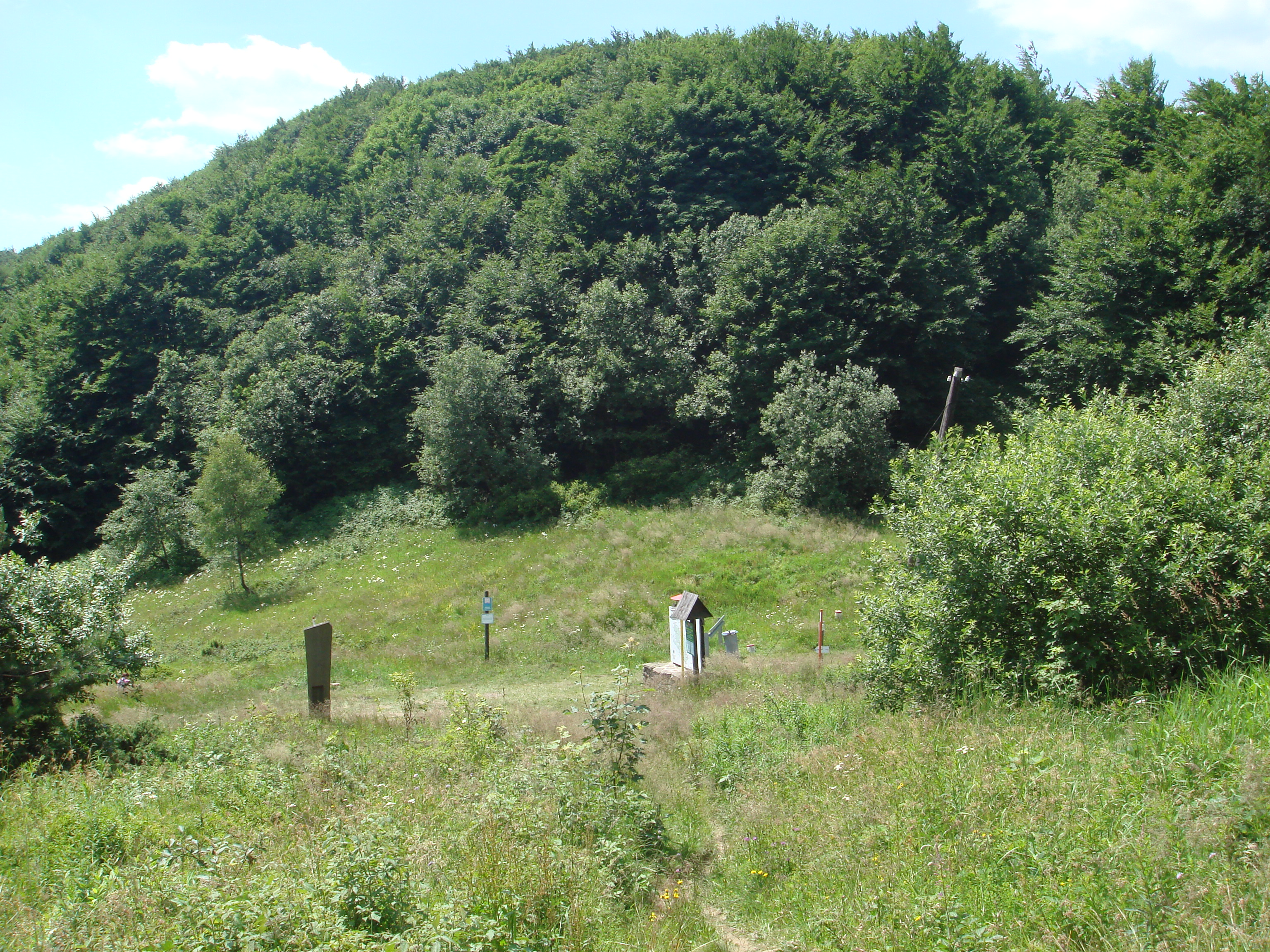 The Przełęcz nad Roztokami Górnymi/Ruské sedlo Pass on the Polish-Slovak border.